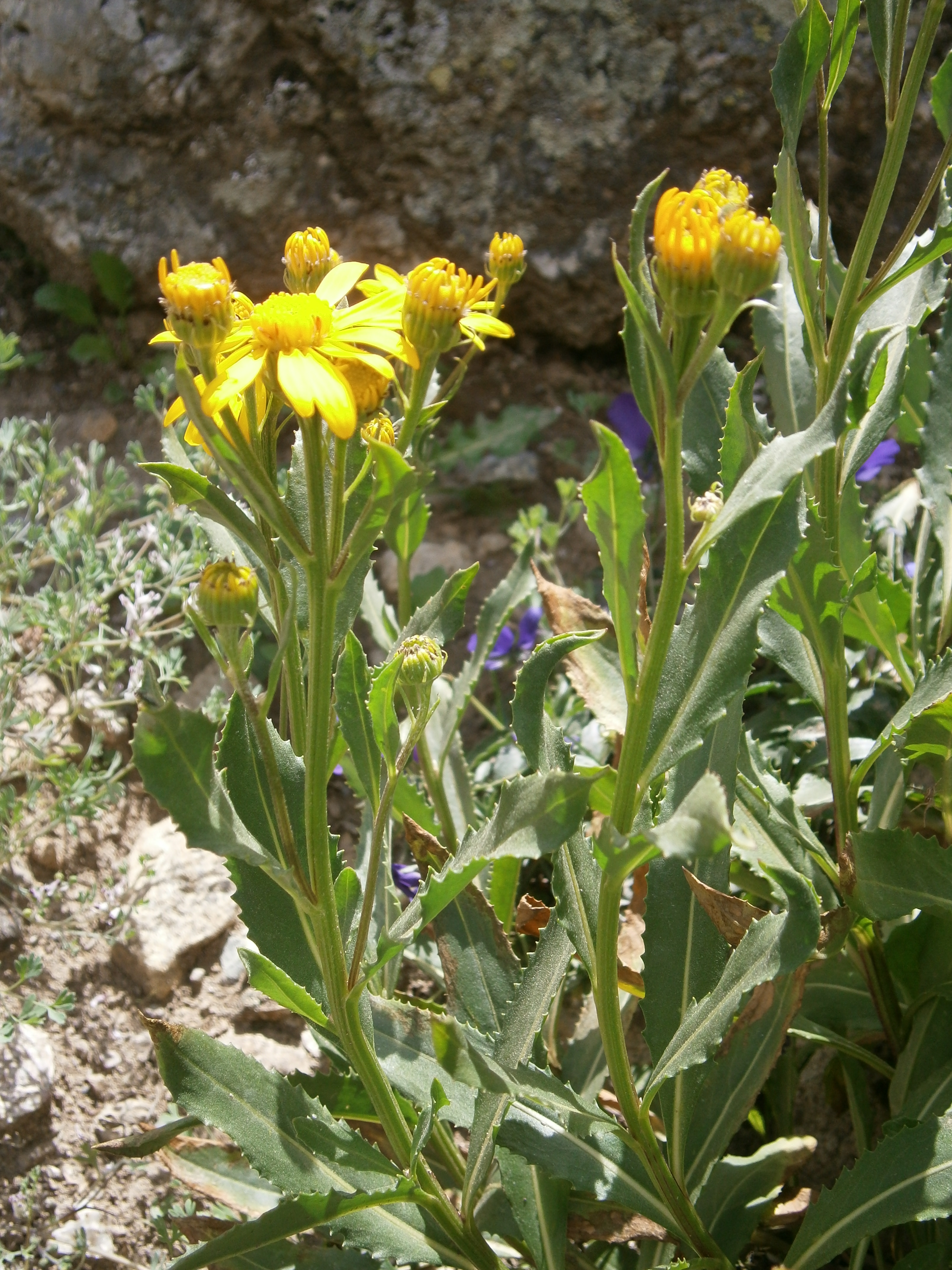 Senecio pyrenaicus in the Jardin Botanique Alpin du Lautaret